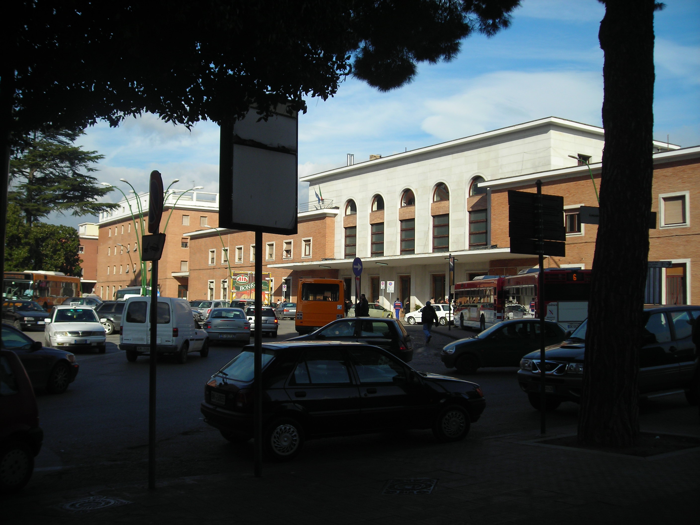 The railway station of Benevento, Italy